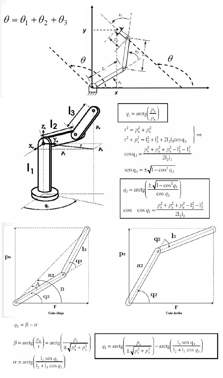 process of geometric solution